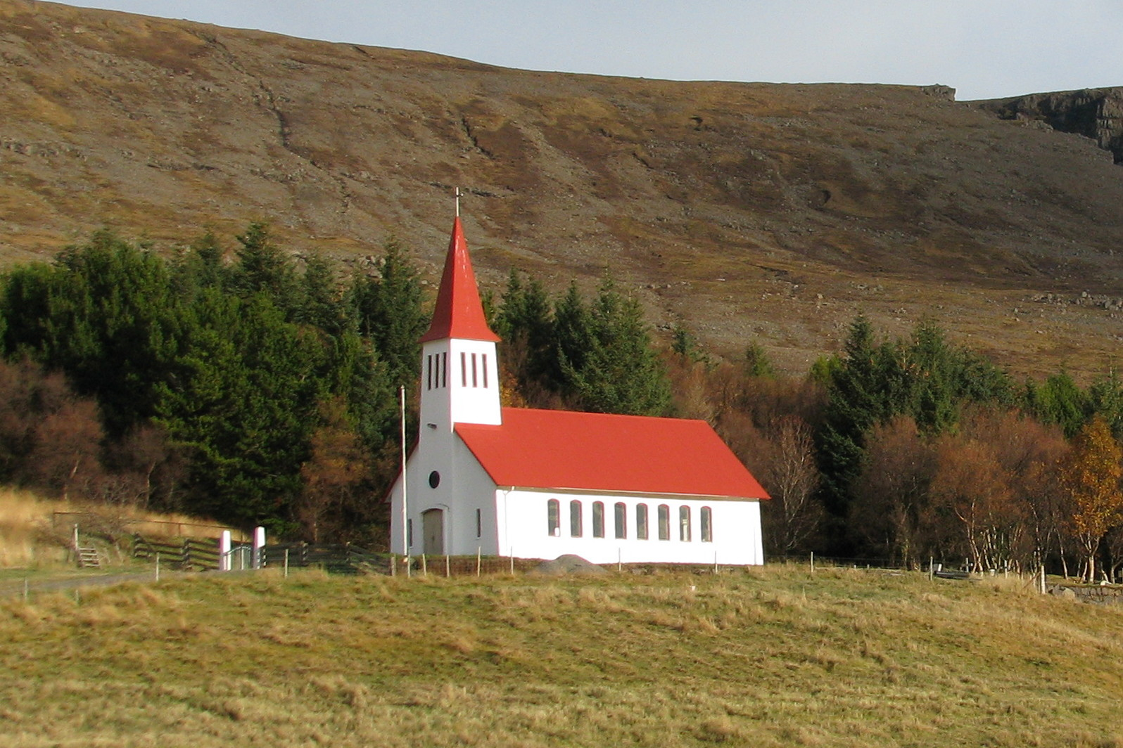 Lundur, a church and former parsonage on Iceland